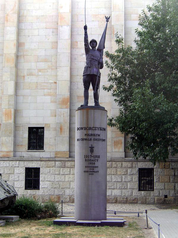 Monument to Dowbor-Muśnicki's men, destroyed by the Communists in 1948, restored in 2001.